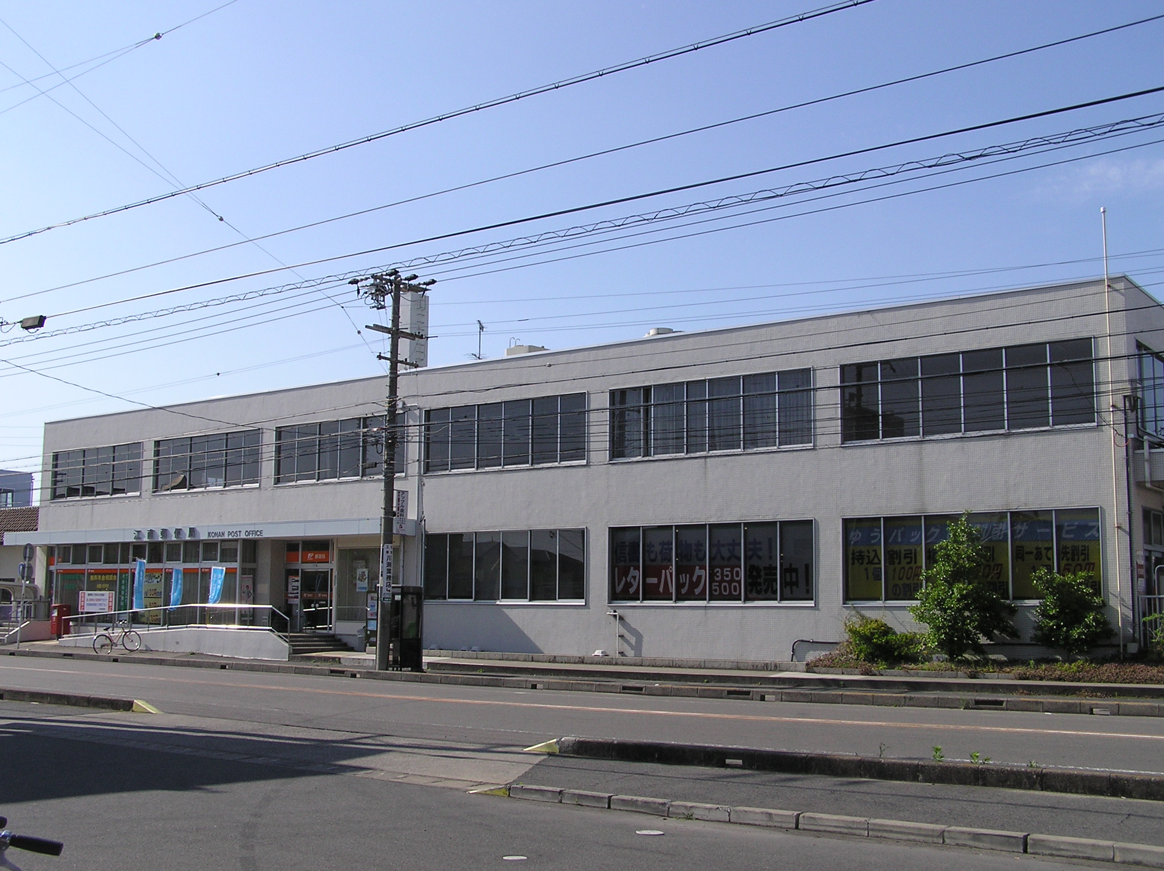 Kounan_post_office